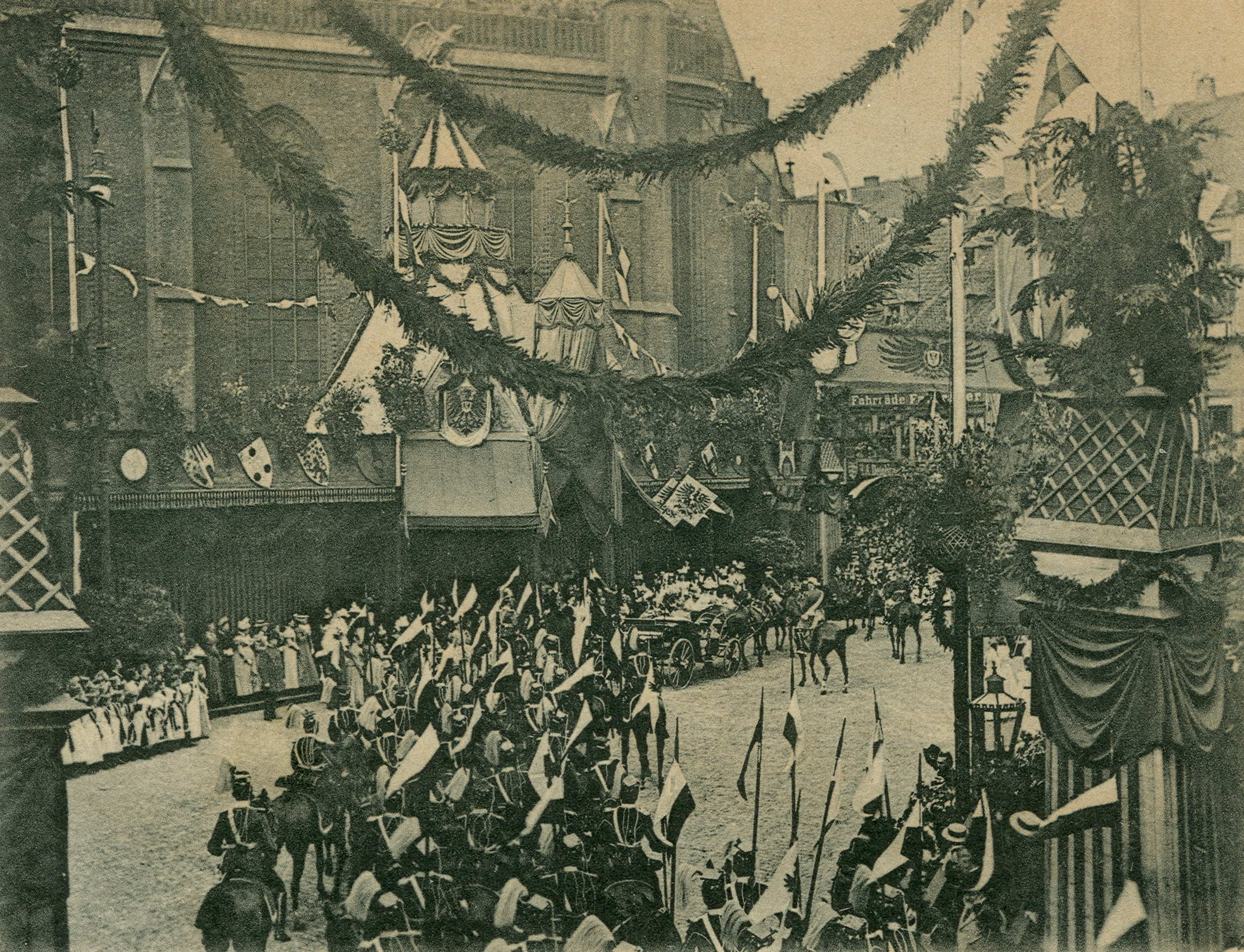 Hanover